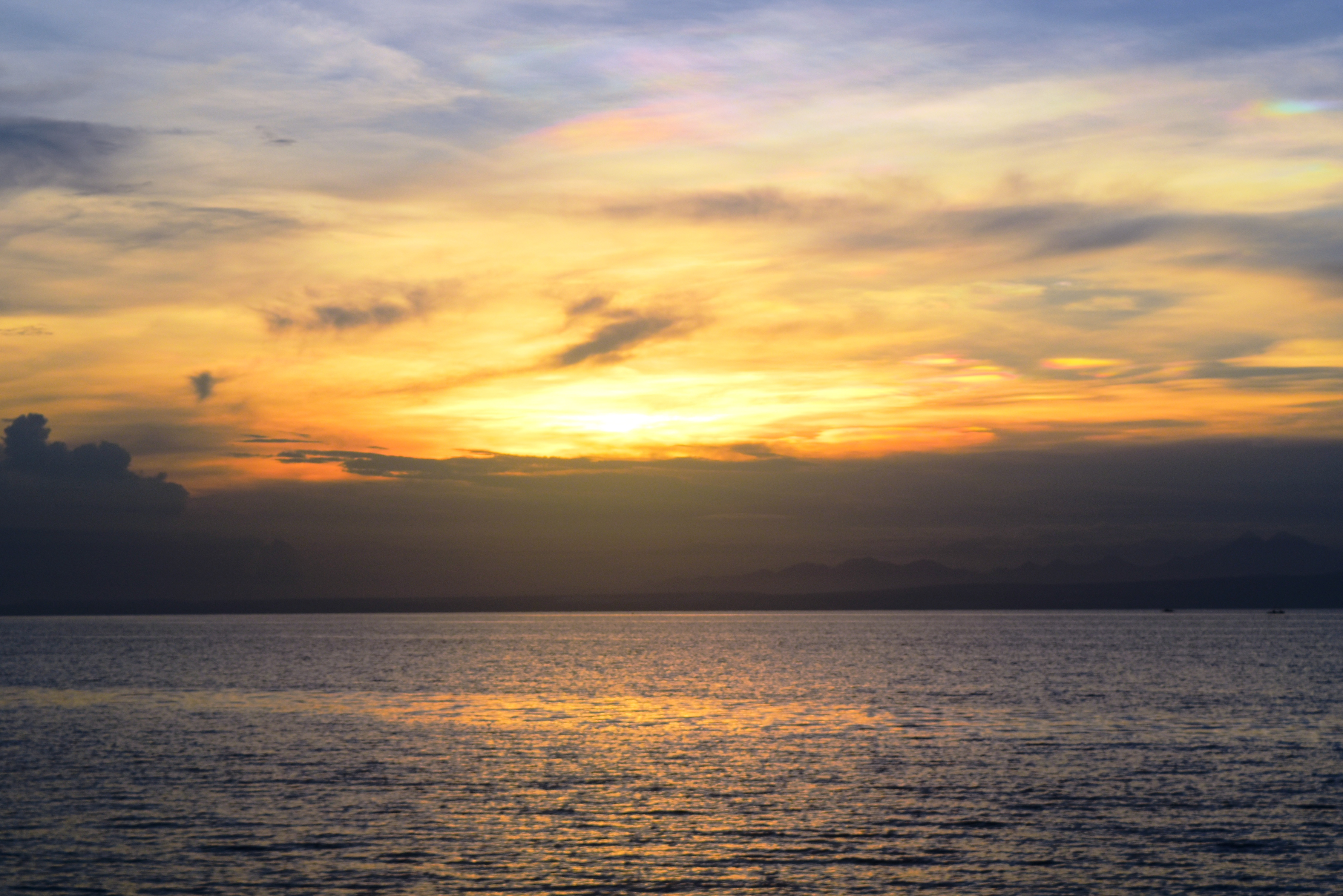 San Miguel Bay Sunset, Sabang, Calabanga, Camarines Sur